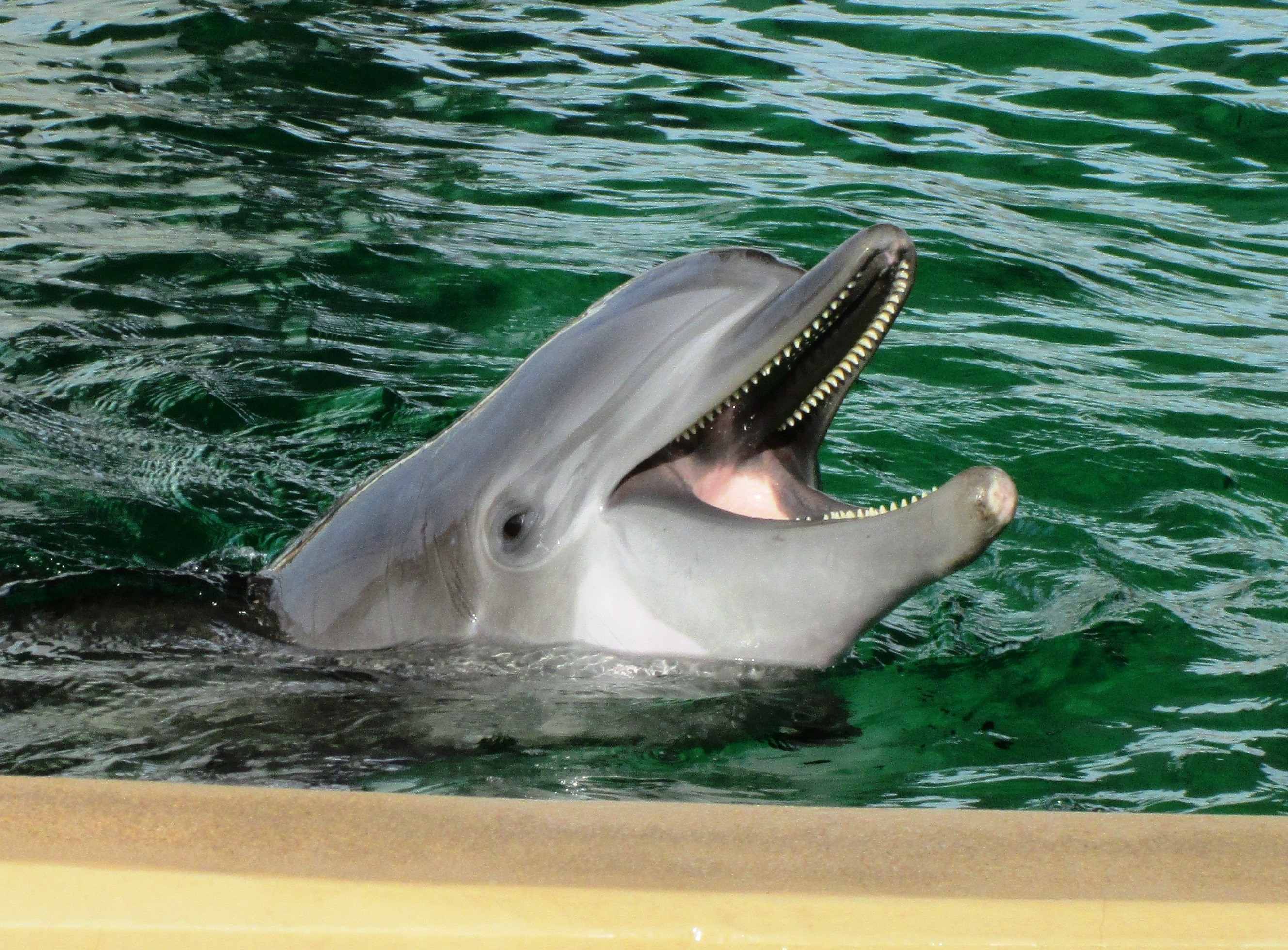 Nicholas, an Atlantic bottlenose dolphin who was rescued on Christmas Eve 2002 as a 6-month old calf. Healed and raised by the Aquarium staff, Federal authorities determined that he was not a candidate for release because he had not been trained by his mother in the survival skills dolphins require. Because of this, he is now a permanent resident at the aquarium.